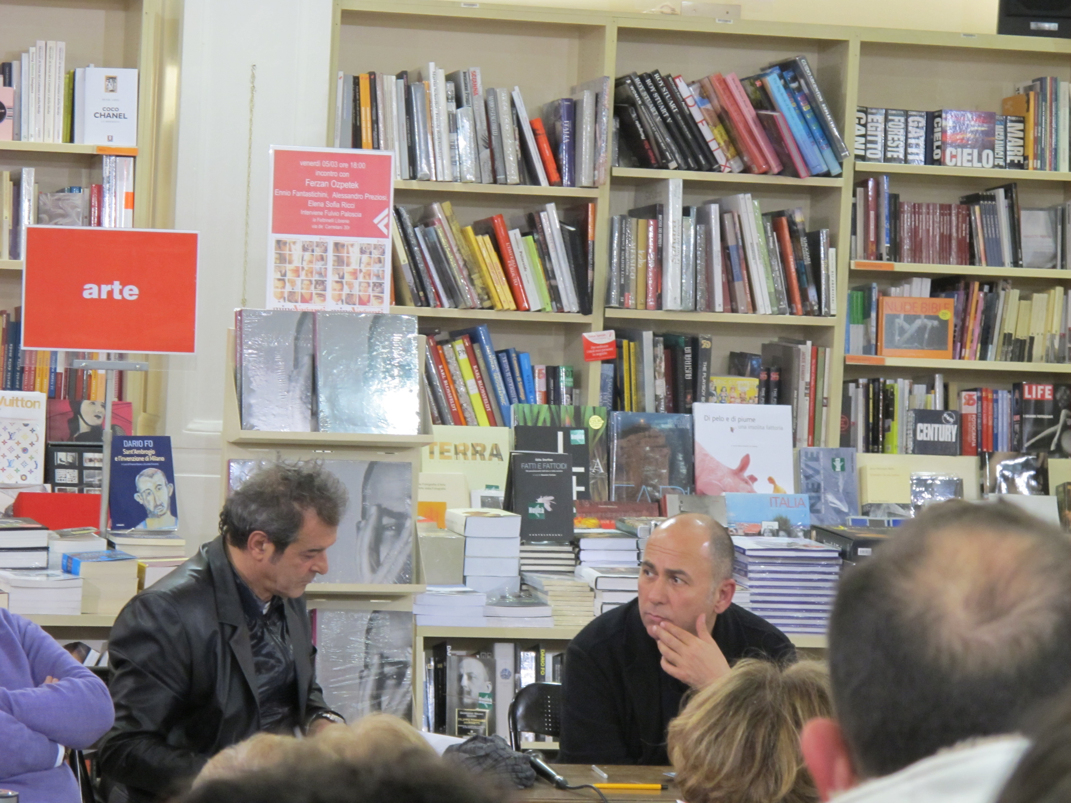 Ferzan Özpetek presents his new movie "Mine vaganti". Original description by photographer: "Venerdi' 5 Marzo 2010 alla Feltrinelli di Via de' Cerretani a Firenze il regista Ferzan Ozpetek, Riccardo Scamarcio, Nicole Grimaudo, Ennio Fantastichini, Alessandro Preziosi ed Elena Sofia Ricci hanno incontrato il pubblico per la presentazione del nuovo film "Mine Vaganti" in uscita il 12 Marzo."